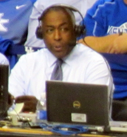 John Saunders broadcasts Kentucky's Blue-White scrimmage from Rupp Arena for ESPN